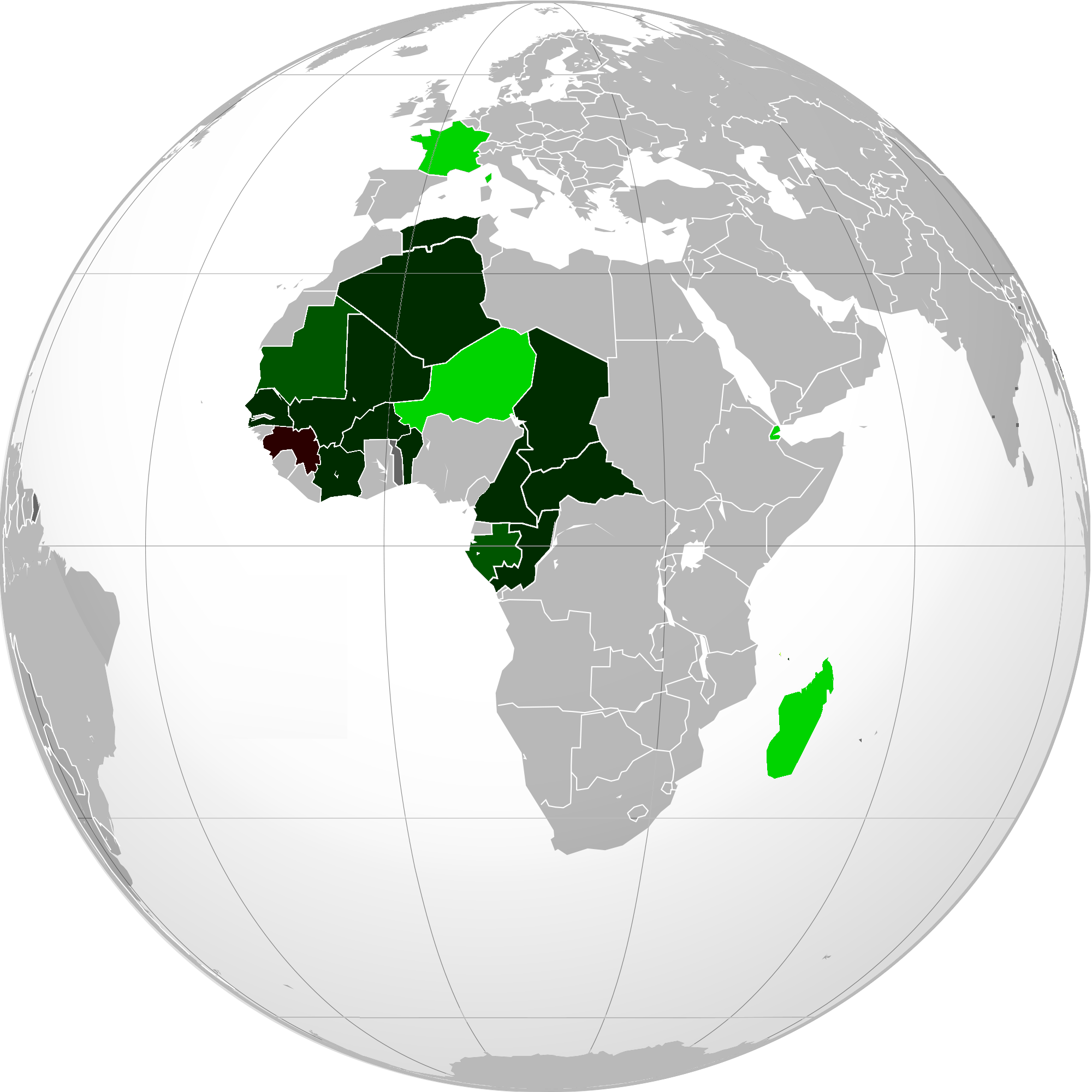 Map of the results of the 1958 French constitutional referendum. 95-100% Yes 90-95% Yes 85-90% Yes 80-85% Yes 75-80% Yes 70-75% Yes 65-70% Yes 60-65% Yes 55-60% Yes 50-55% Yes 45-50% Yes 40-45% Yes 35-40% Yes 30-35% Yes 25-30% Yes 20-25% Yes 15-20% Yes 10-15% Yes 5-10% Yes 0-5% Yes Unknown